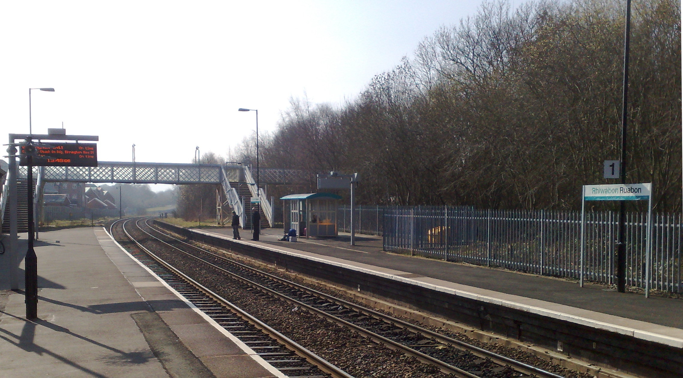 Image of Ruabon railway station, looking south, showing the pedestrian footbridge. The footbridge is only used for access to platform 1, but the bridge continues toward the disused platforms that once served the Ruabon to Barmouth line